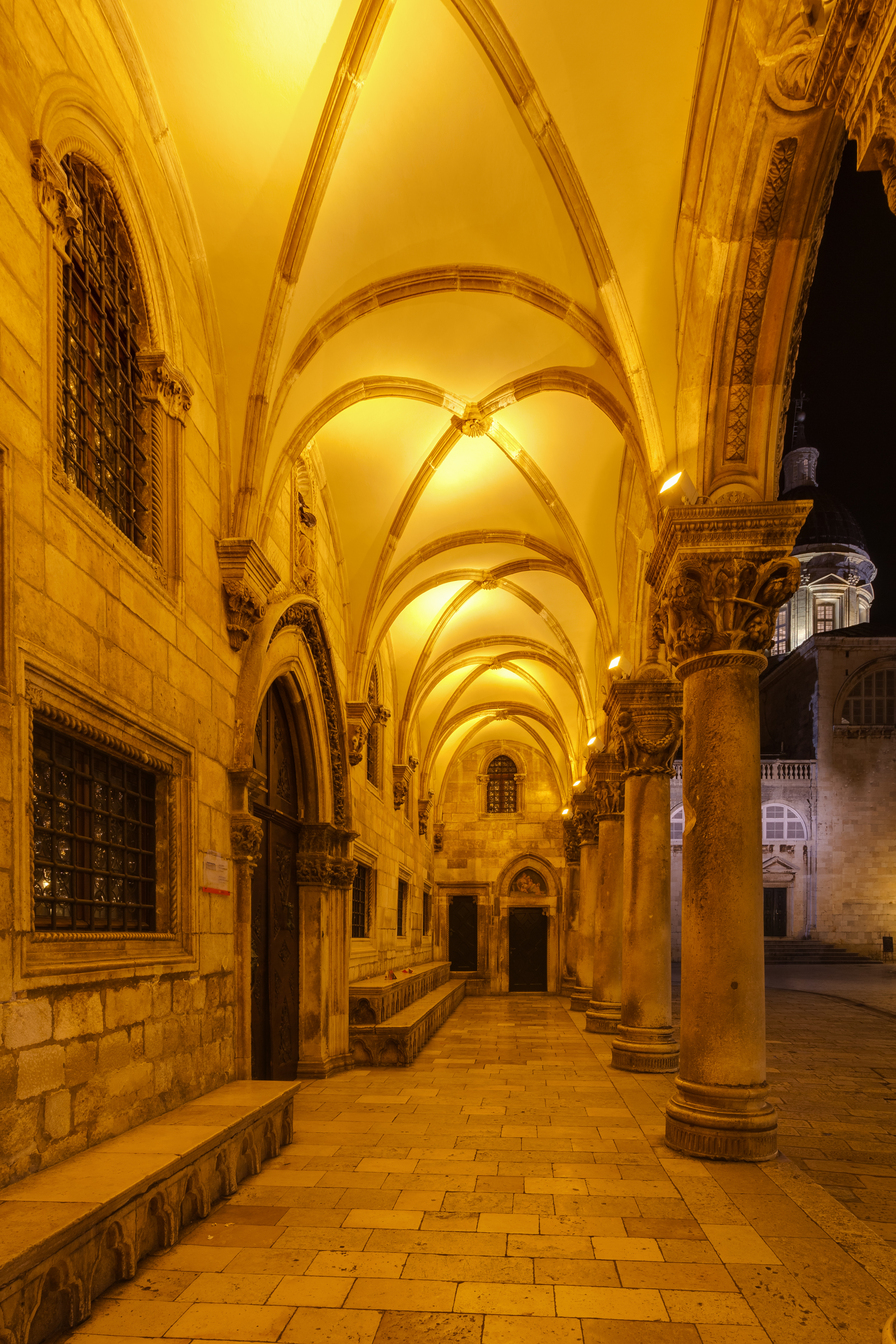 Rector's palace, Old city of Dubrovnik, Croatia